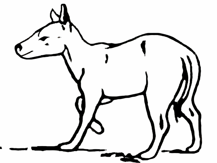 Lambdotherium popoagicum